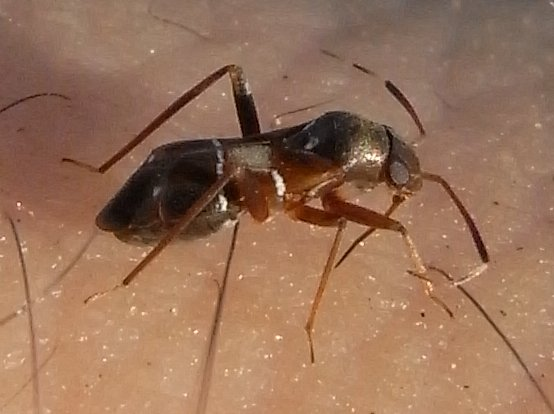 Pilophorus perplexus sitting on a forearm, on a meadow in Cologne, Germany.